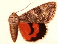 PLATE CXCVII.